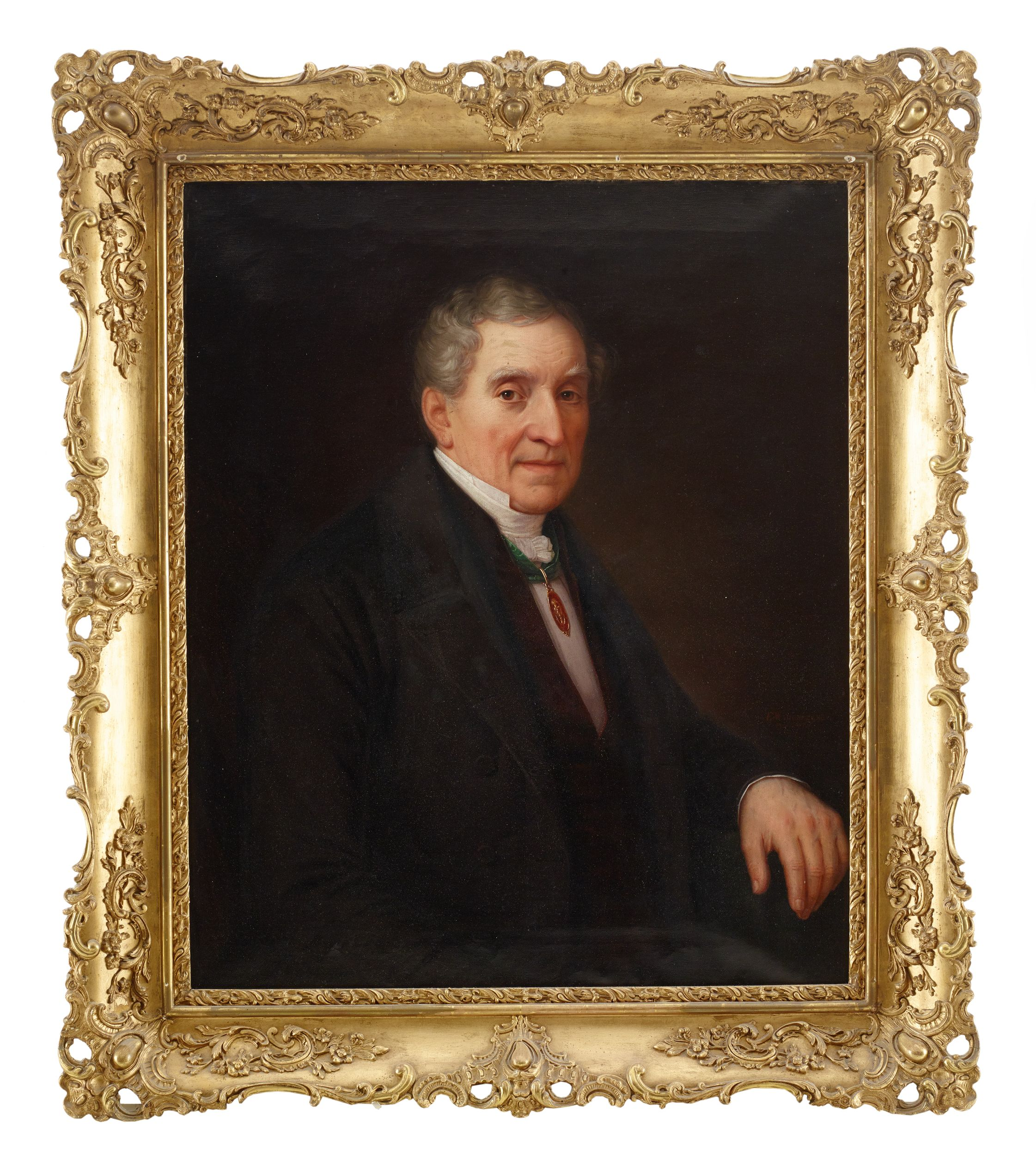 The Swedish silver smith Erik Adolf Zethelius (1781-1864). Portrait by Erik Wahlbergson (1808-1865).